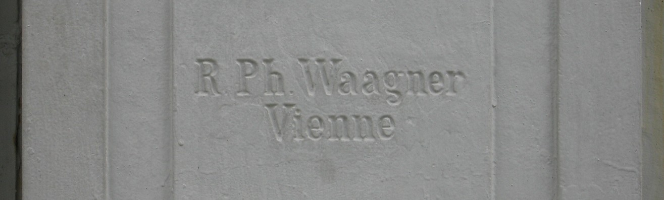 Imprint of construction company Waagner, Vienna. Bulgarian-orthodox church St. Stefan in Fener, Istanbul.